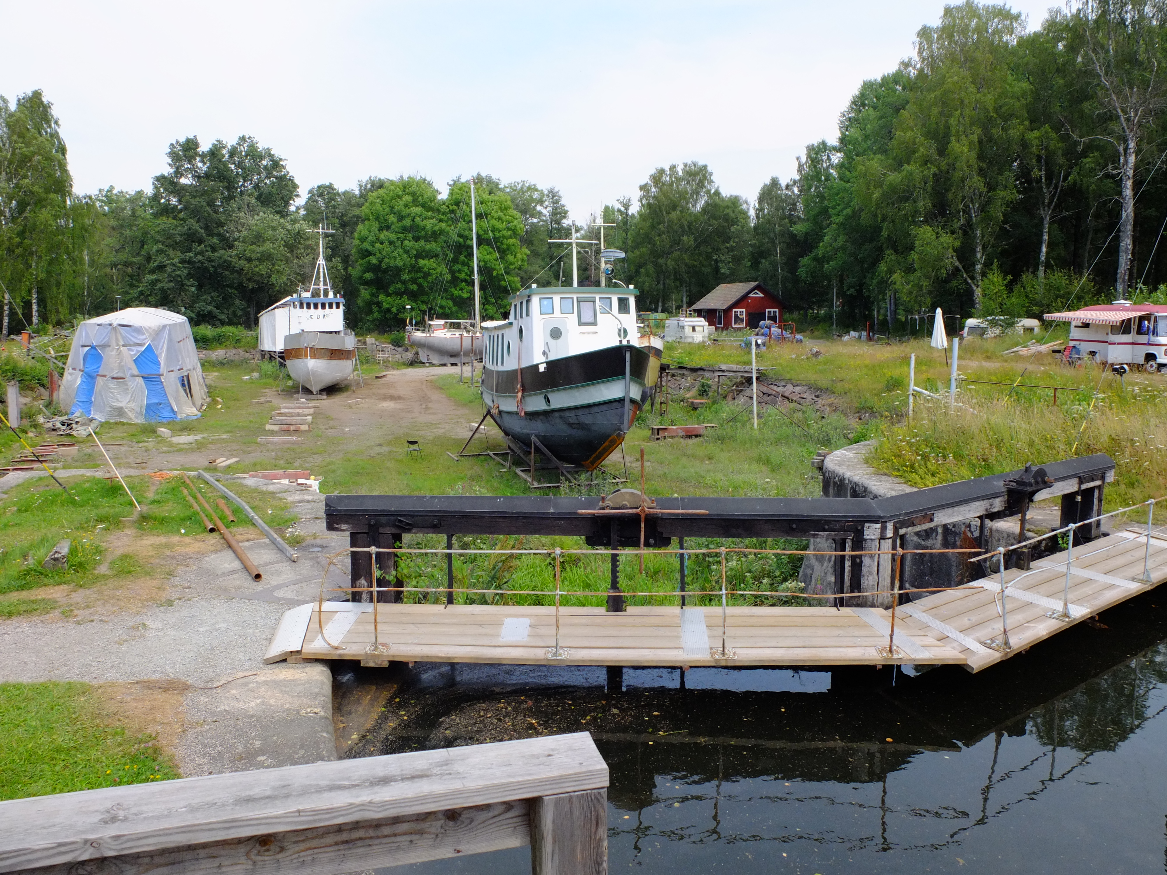 The dock at Hjälmare canal